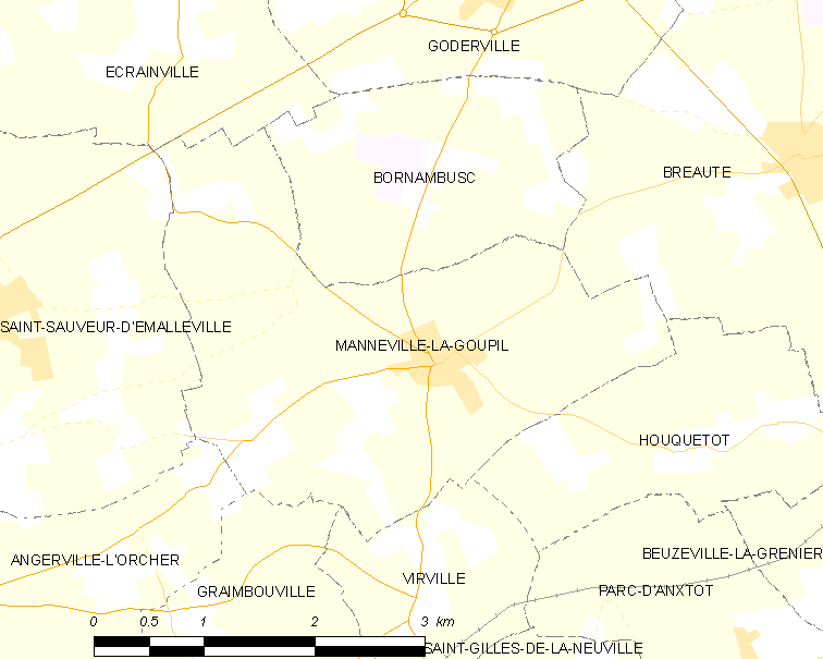 Map of French municipality Manneville-la-Goupil